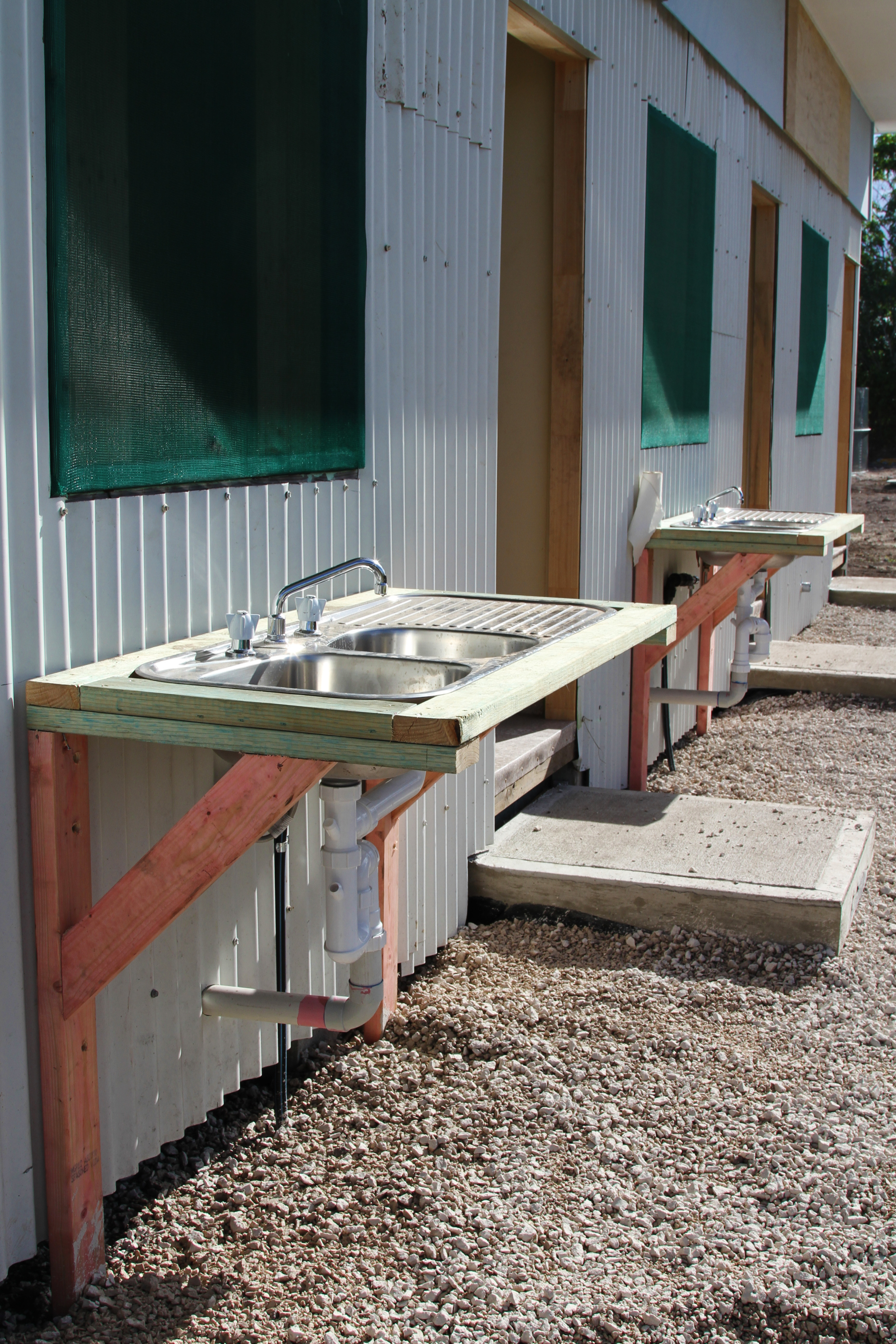 Accommodation in the Nauru offshore processing facility.